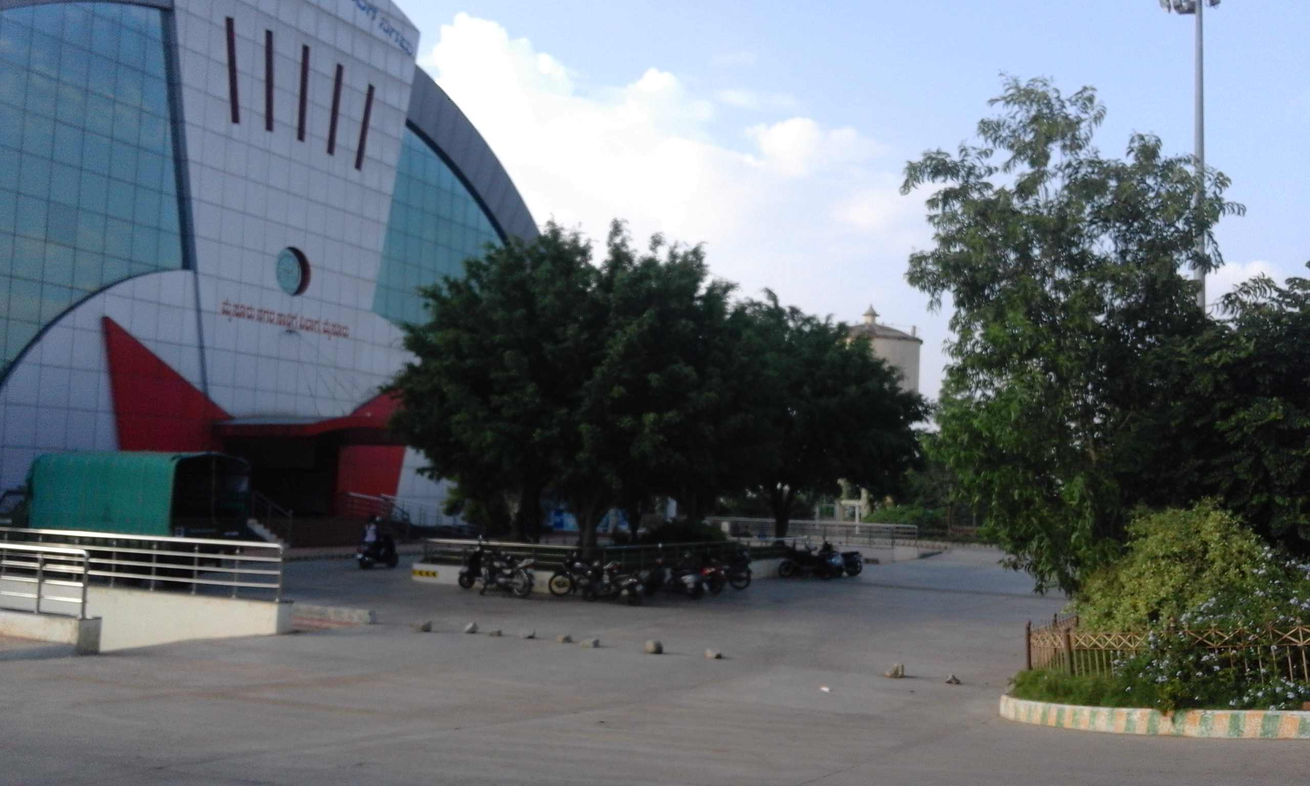 Naidu Nagar Bus Station, Mysore